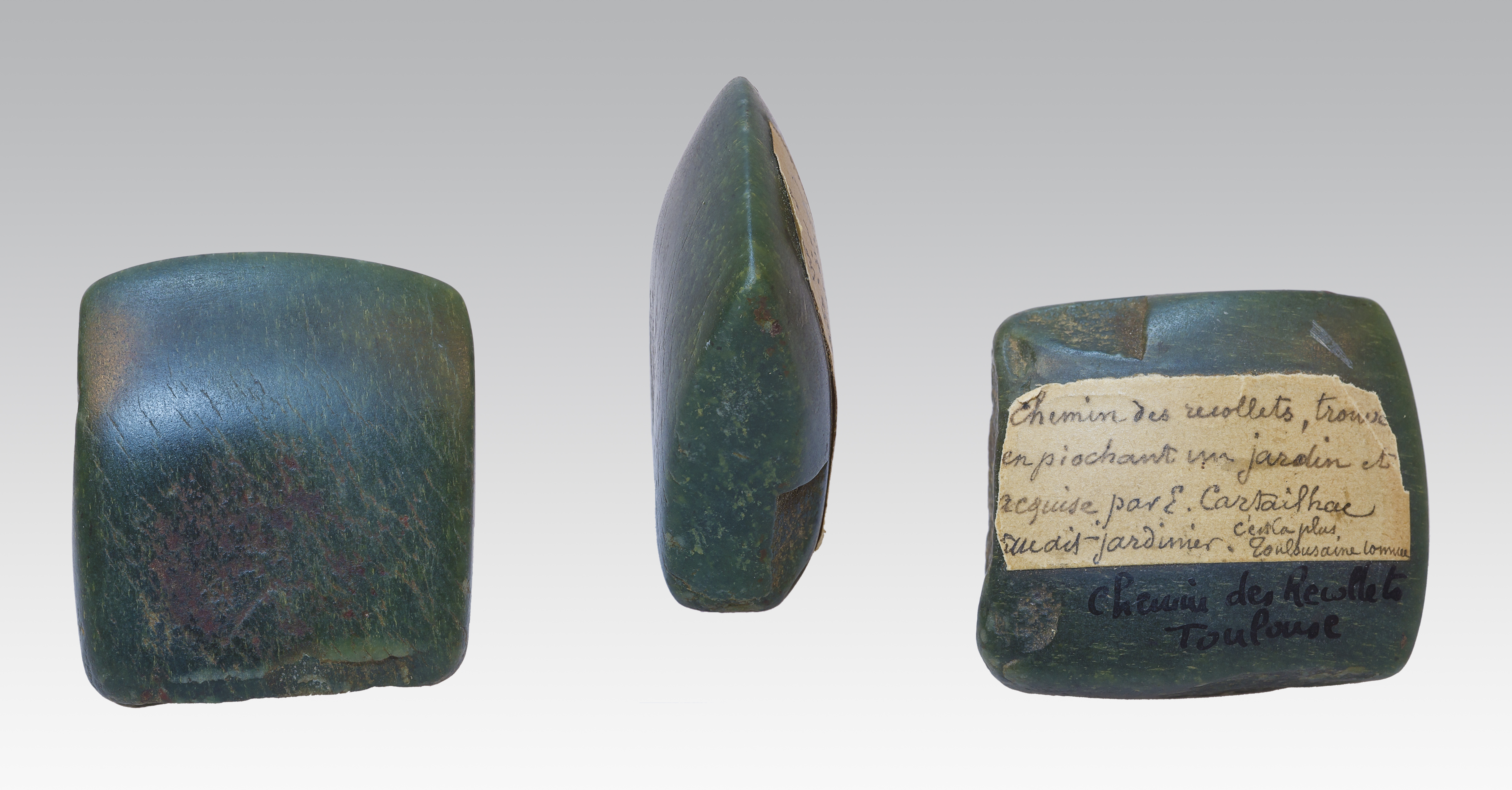 Polished stone axe - Different views of the same specimen